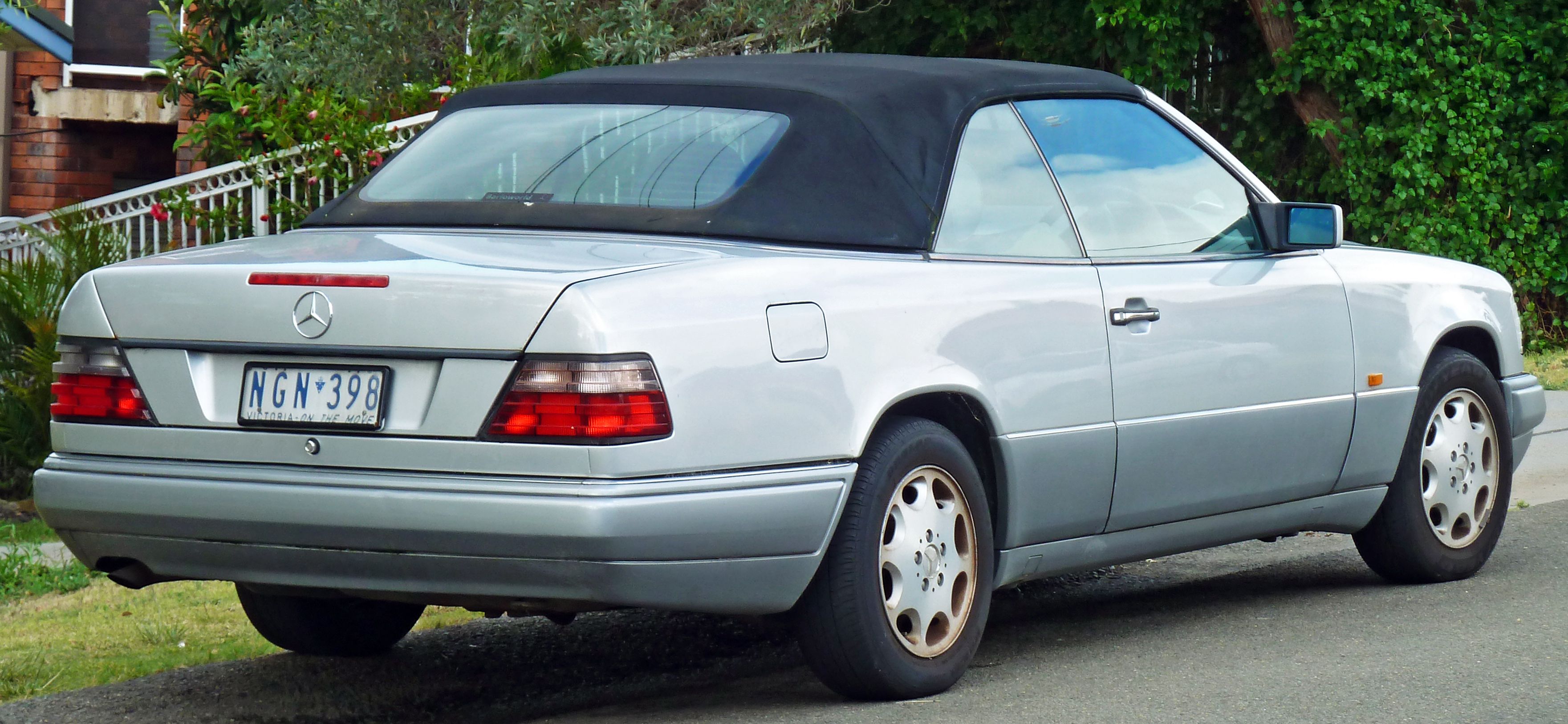 1995 Mercedes-Benz E 220 (A 124) convertible. Photographed in Cronulla, New South Wales, Australia. Vehicle registration enquiry results Jurisdiction Victoria Registration NGN398 Chassis code WDB1240622C240950 Engine code 11196022088203 Compliance date 1995-05 Year of manufacture 1995